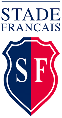 Logo of sports club, Stade Francais.